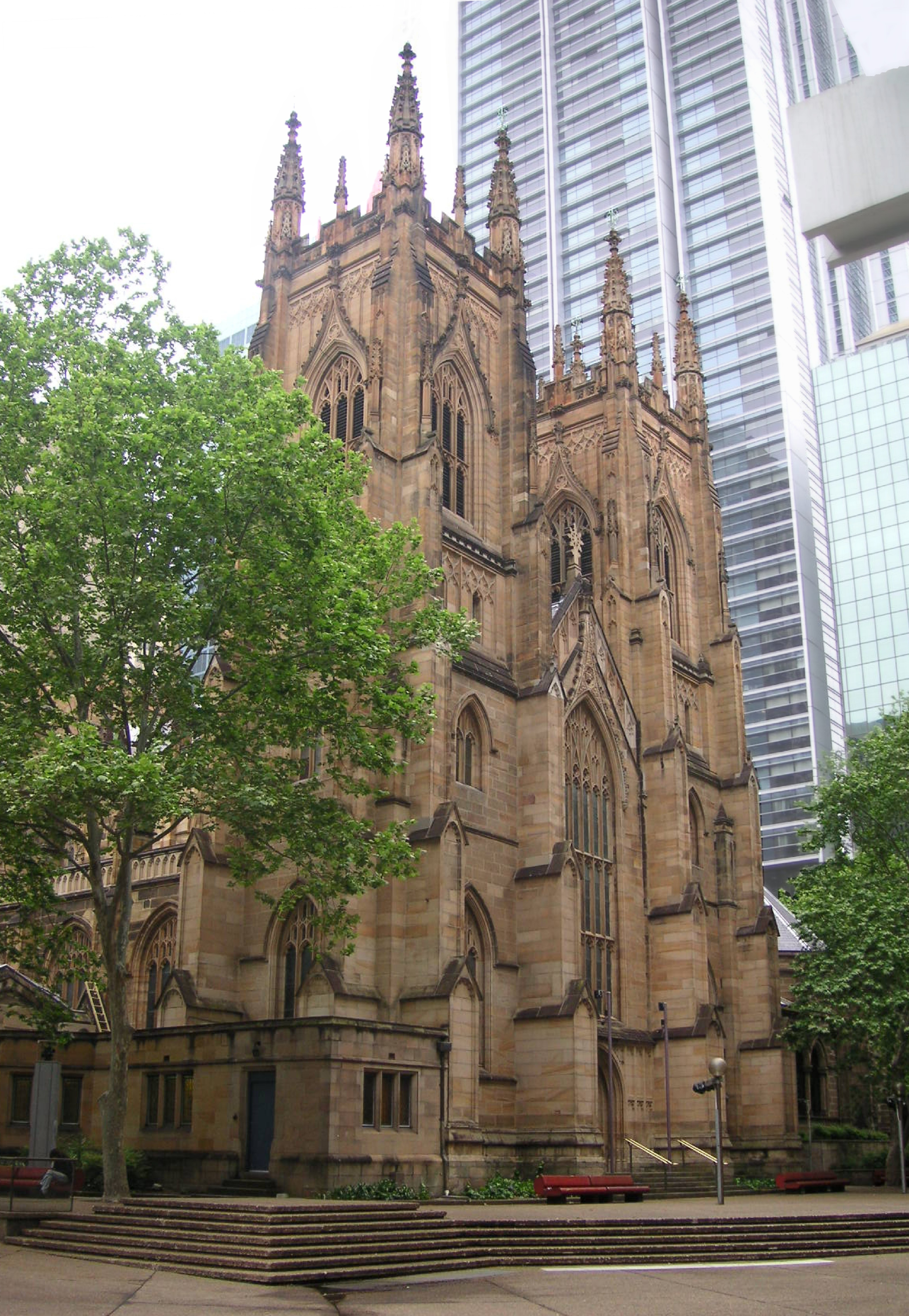 Sydney, The facade of St. Andrew's Cathedral, architect Edmund Blacket